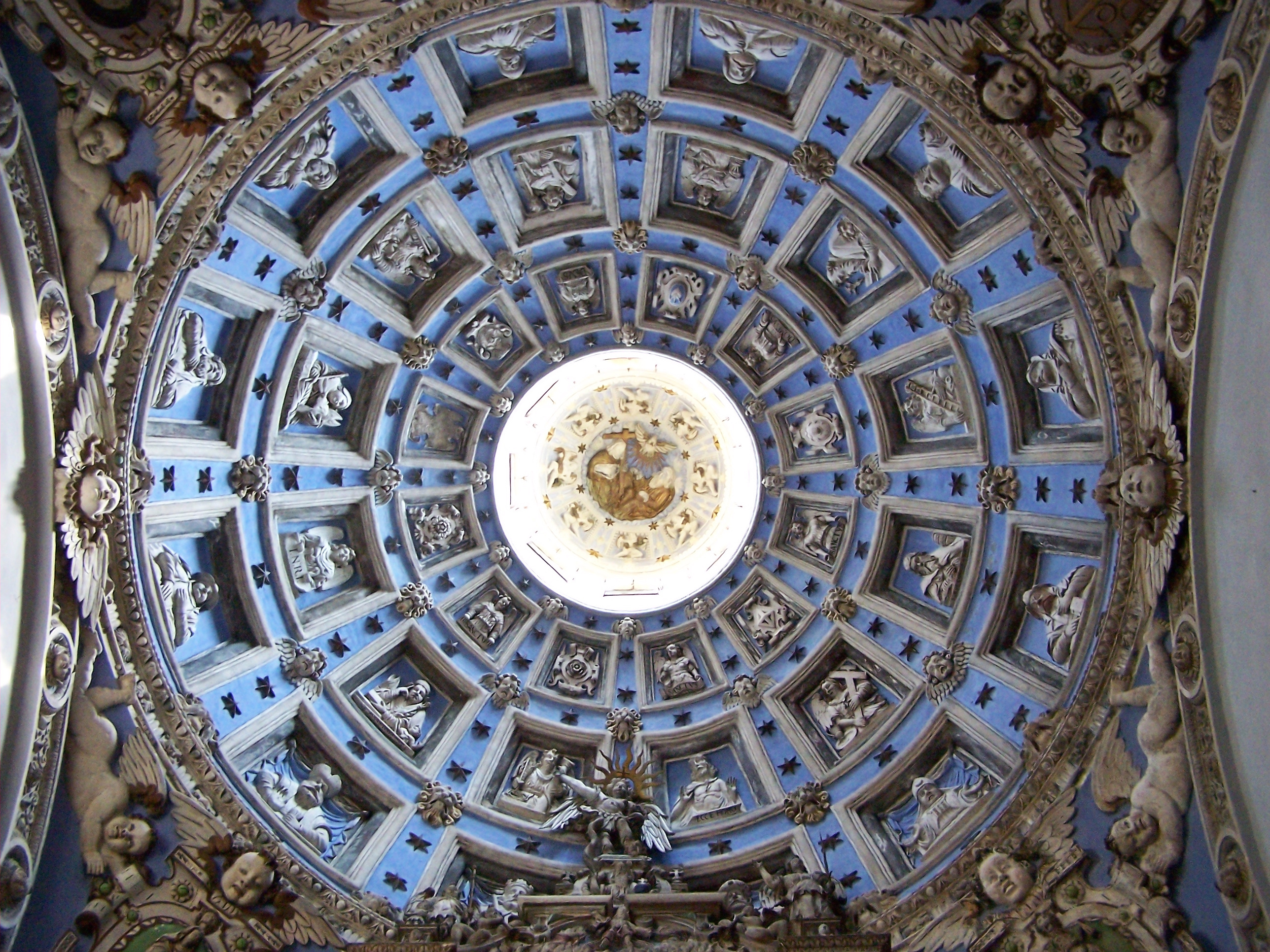 Chapel of Boim family in Lviv (Ukraine).